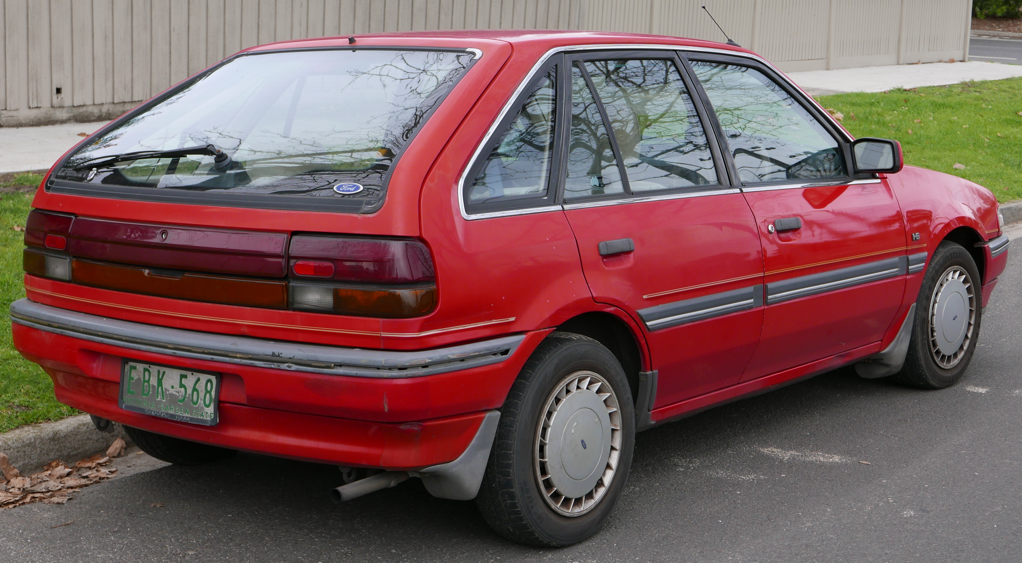 1989 Ford Laser (KE) Ghia 5-door hatchback. Photographed in Alphington, Victoria, Australia. Vehicle registration enquiry results Jurisdiction Victoria Registration EBK568 Chassis code 6FPAAAUK8RKK30084 Engine code JK8RKK30084 Compliance date 1989-10 Year of manufacture 1989